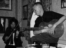 photo by Graham Burnett (quercus robur). If re-used a credit would be appreciated but is not compulsory!